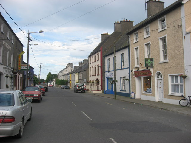 Main Street, Eyrecourt, Co. Galway, near to Dun an Uchta, Fearmore, Prospect and Tully, Galway, Ireland. Large houses on the Main Street of this town which prospered in the 18th century when it was on the coach routes linking Dublin, Limerick and Galway.